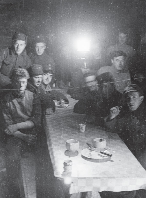 Some of the soldiers defending Hegra Fortress during the Battle of Hegra Fortress assembled in one of the fortress' halls.